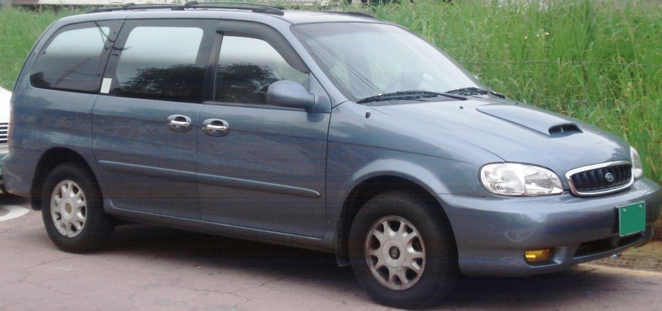 Kia Carnival